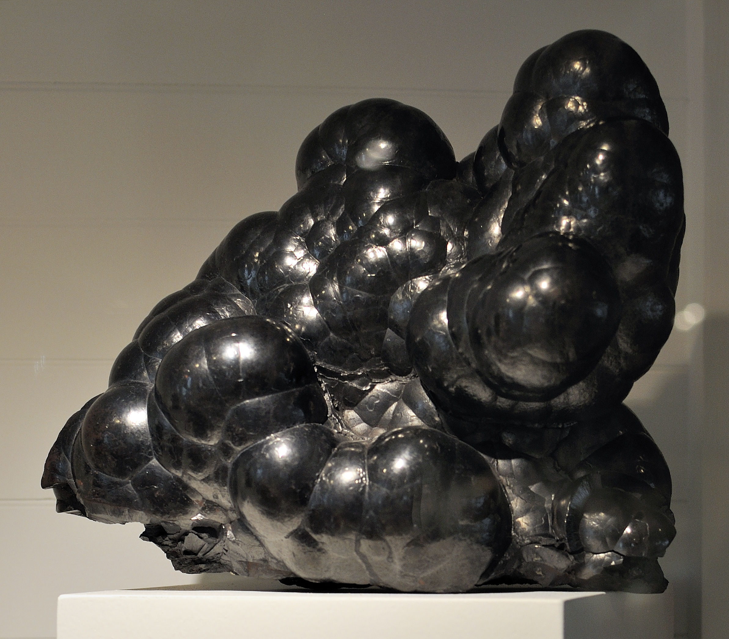 Harvard Museum of Natural History. Hematite. (Cumberland) Cumbria, England.